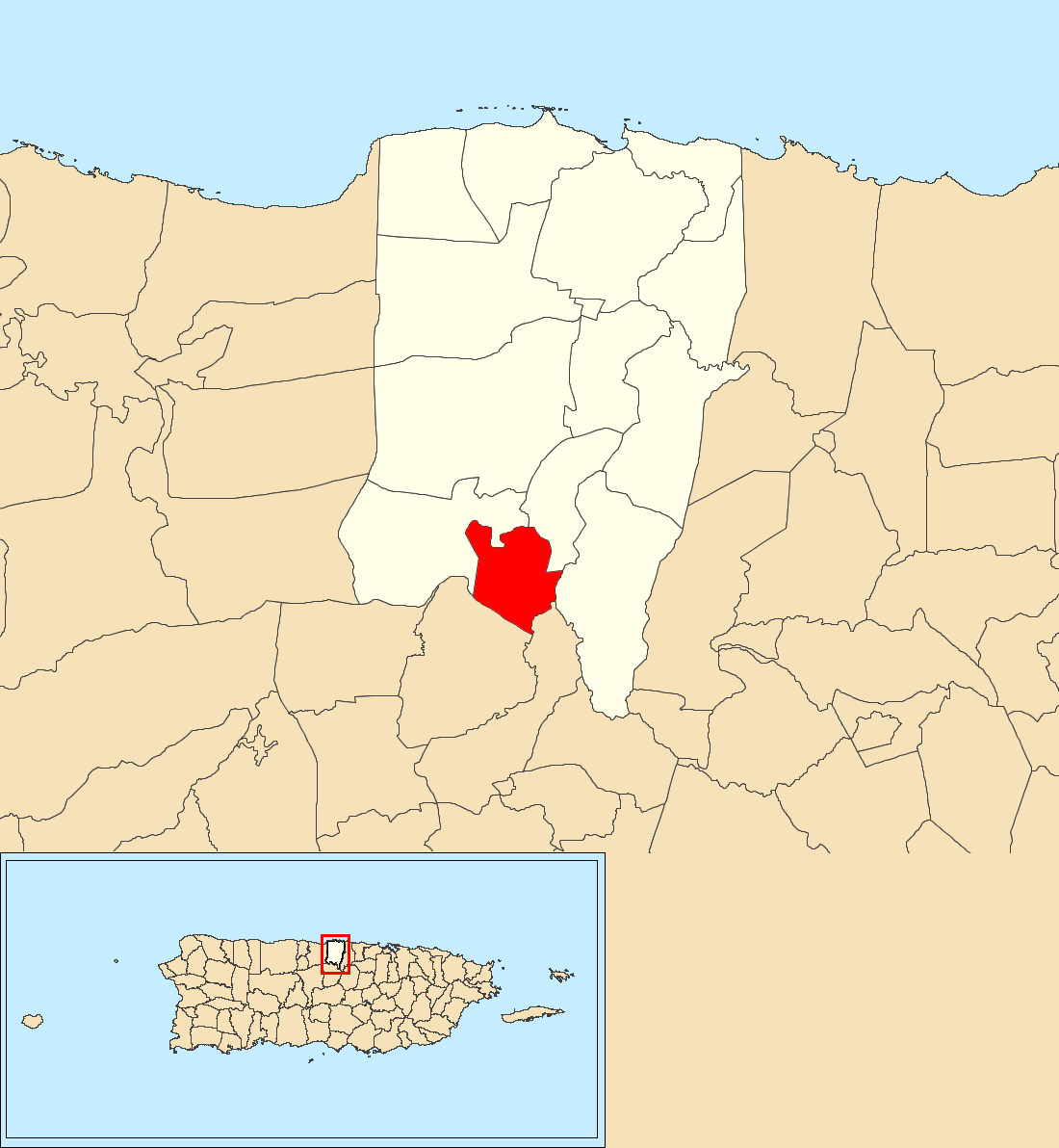 Quebrada Arenas, Vega Baja, Puerto Rico locator map